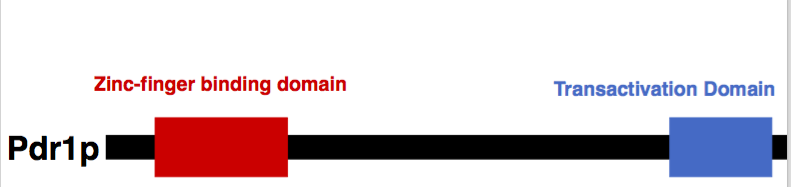 Transactivation domain and zinc-finger dna binding domain